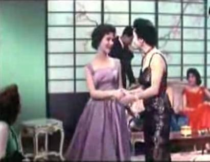 Egyptian actresses Zubaida Tharwat (in middle of picture) and Shadia shaking hands in a shot of the film Dalila (1956).